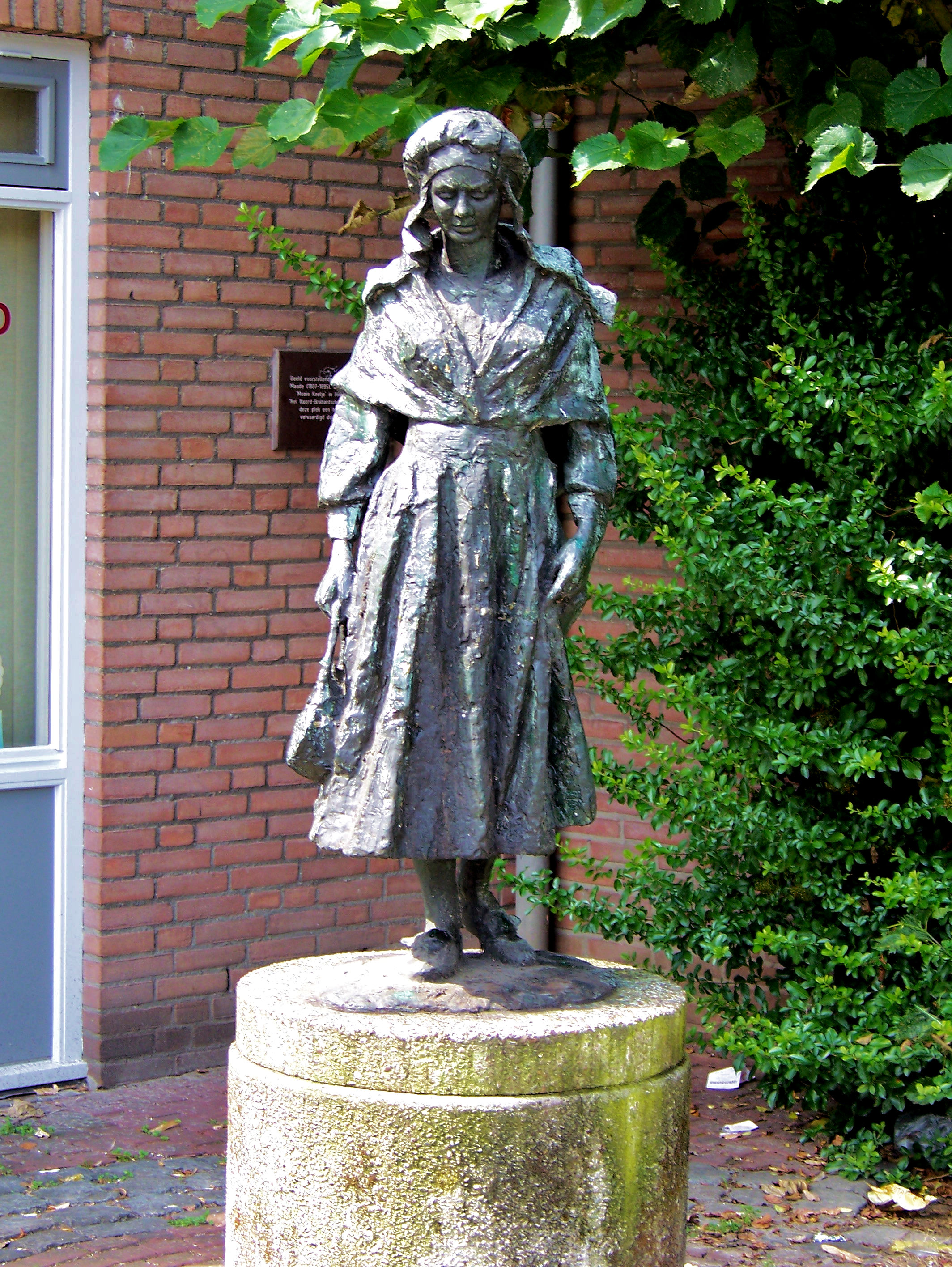 "Mooi Keetje", by Nico van Leest. In Oosterhout, North Brabant (Netherlands).